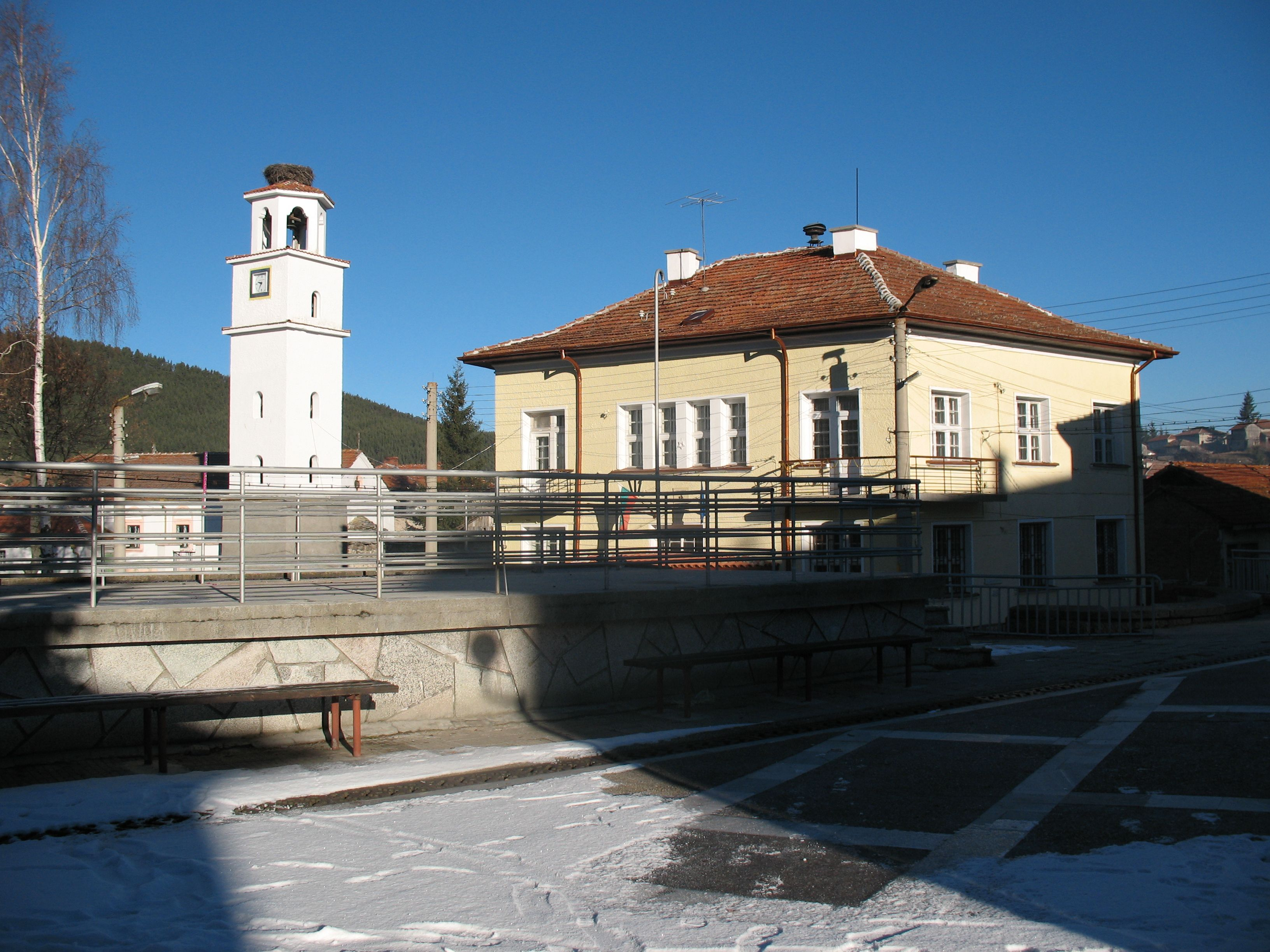 Mayors office and church of village Ravnogor, Bulgaria